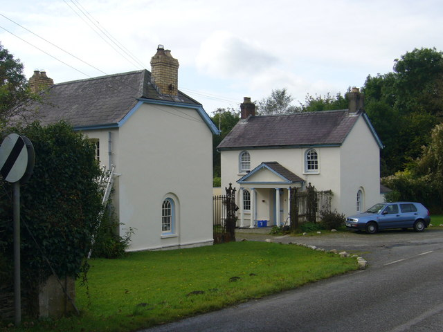 Lodges to Cilwendeg The lodges at one of the entrances to the large Cilwendeg Estate